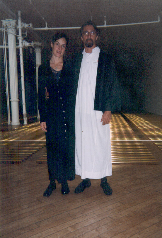 Elisabeth Hoak Doering and Sasha Savic at Dia Art Foundation, New York City, 1999